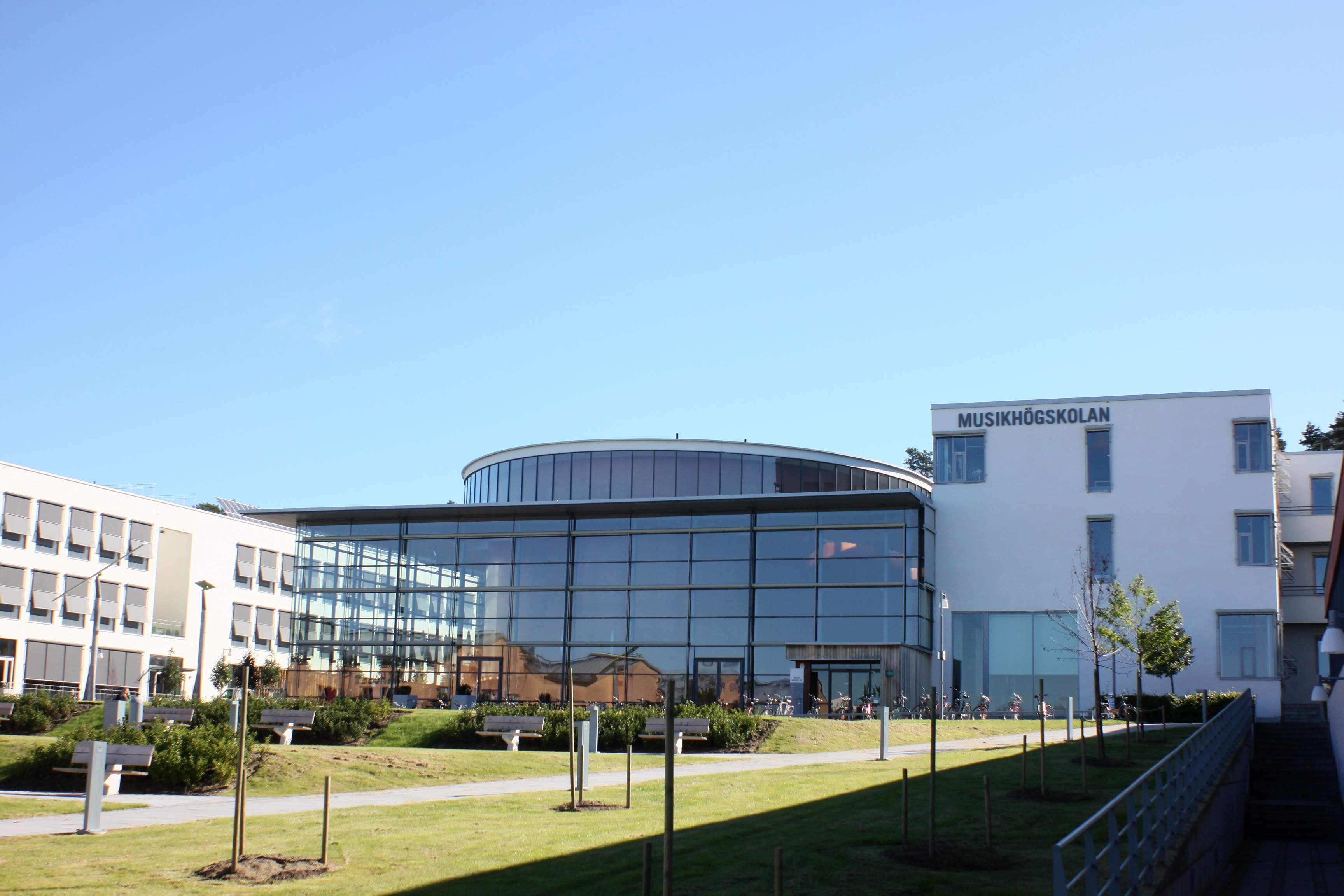 Örebro University Music School